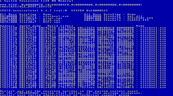 This screenshot shows a Blue Screen of Death on Windows NT 4. The error code is INACCESSIBLE_BOOT_DEVICE.